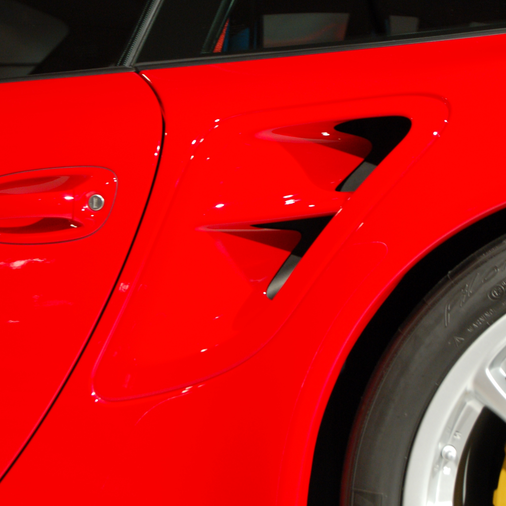 Red Porsche 997 GT2 air scoop